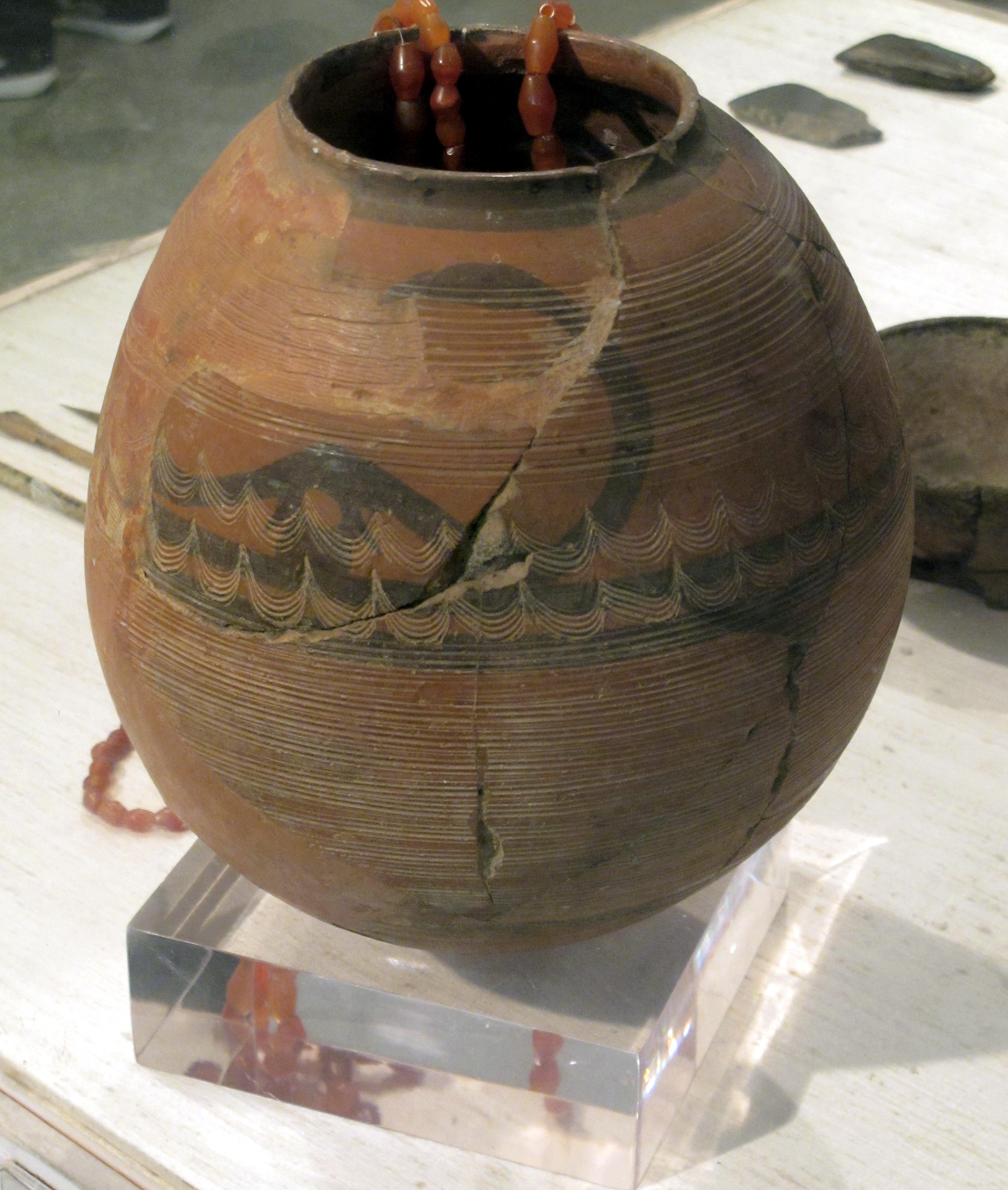 Pot depicting horned figure. Burzahom (Kashmir), 2700 BC. National Museum, New Delhi. Noticed in the museum : the pot depicts horned motifs, which suggests extra territorial links with sites like Kot-Diji, in Sindh.